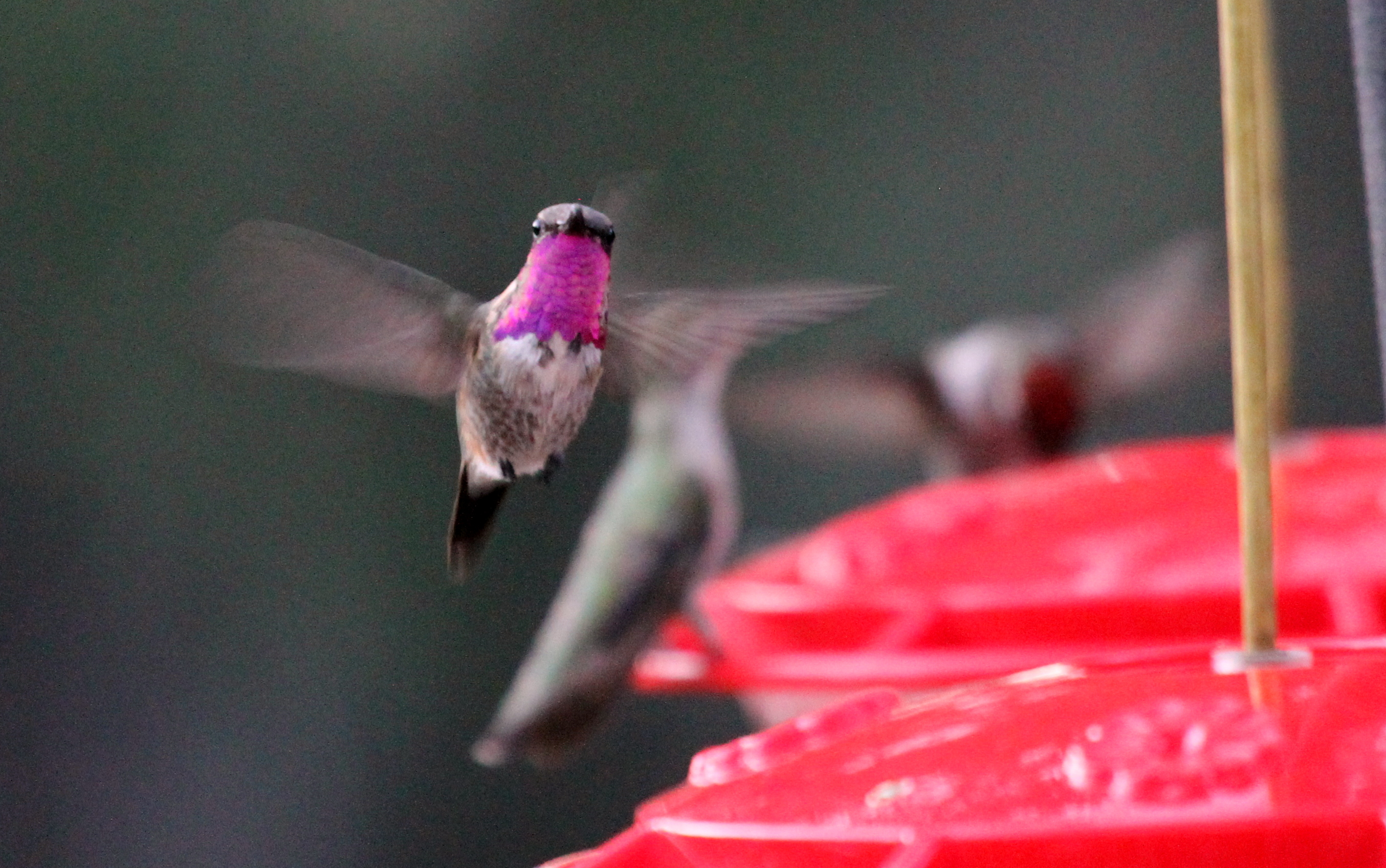 Lucifer hummingbird